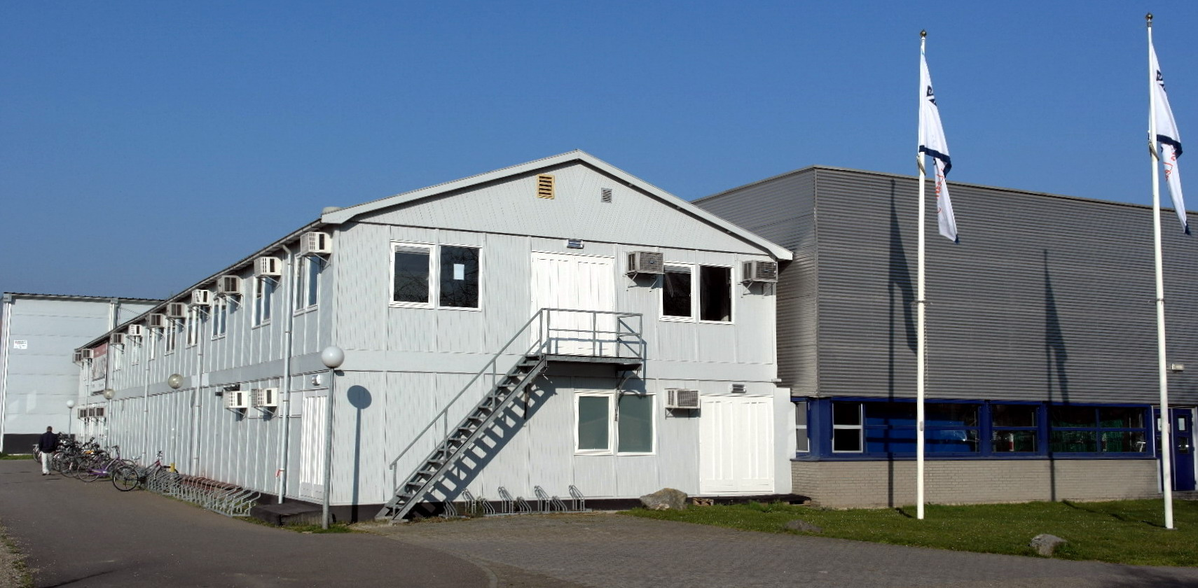 Maastricht, the Netherlands. View of temporary sports facilities of the University of Maastricht in the district of Randwyck.